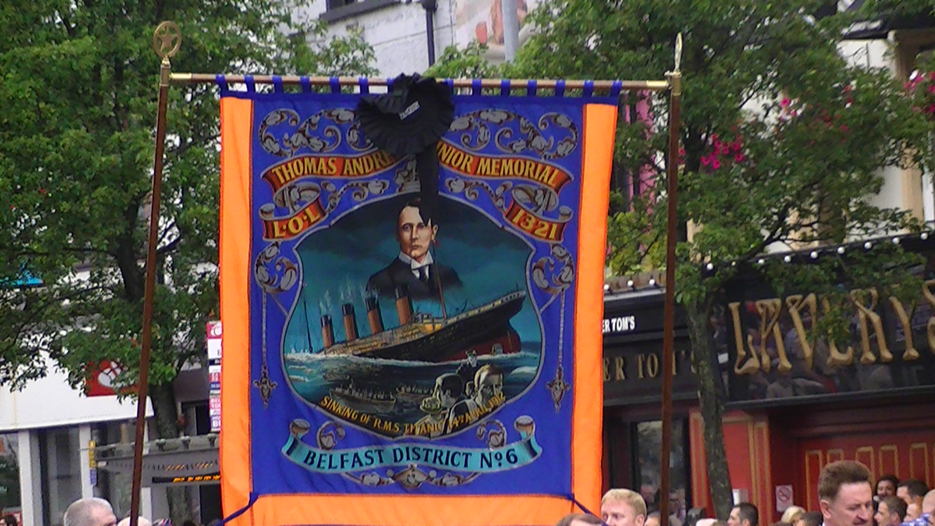 12 July 2012 parade, Belfast. Banner commemorating Thomas Andrews, designer of the Titanic.